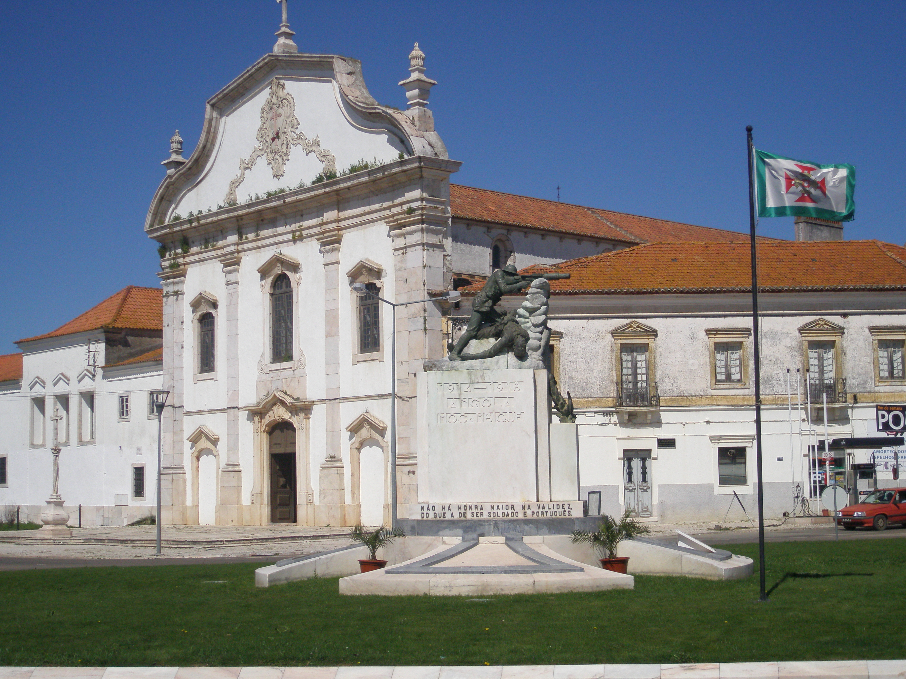 Saint Francis Church in Estremoz